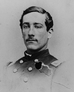 Portrait of John Baptiste Weber cira 1862.